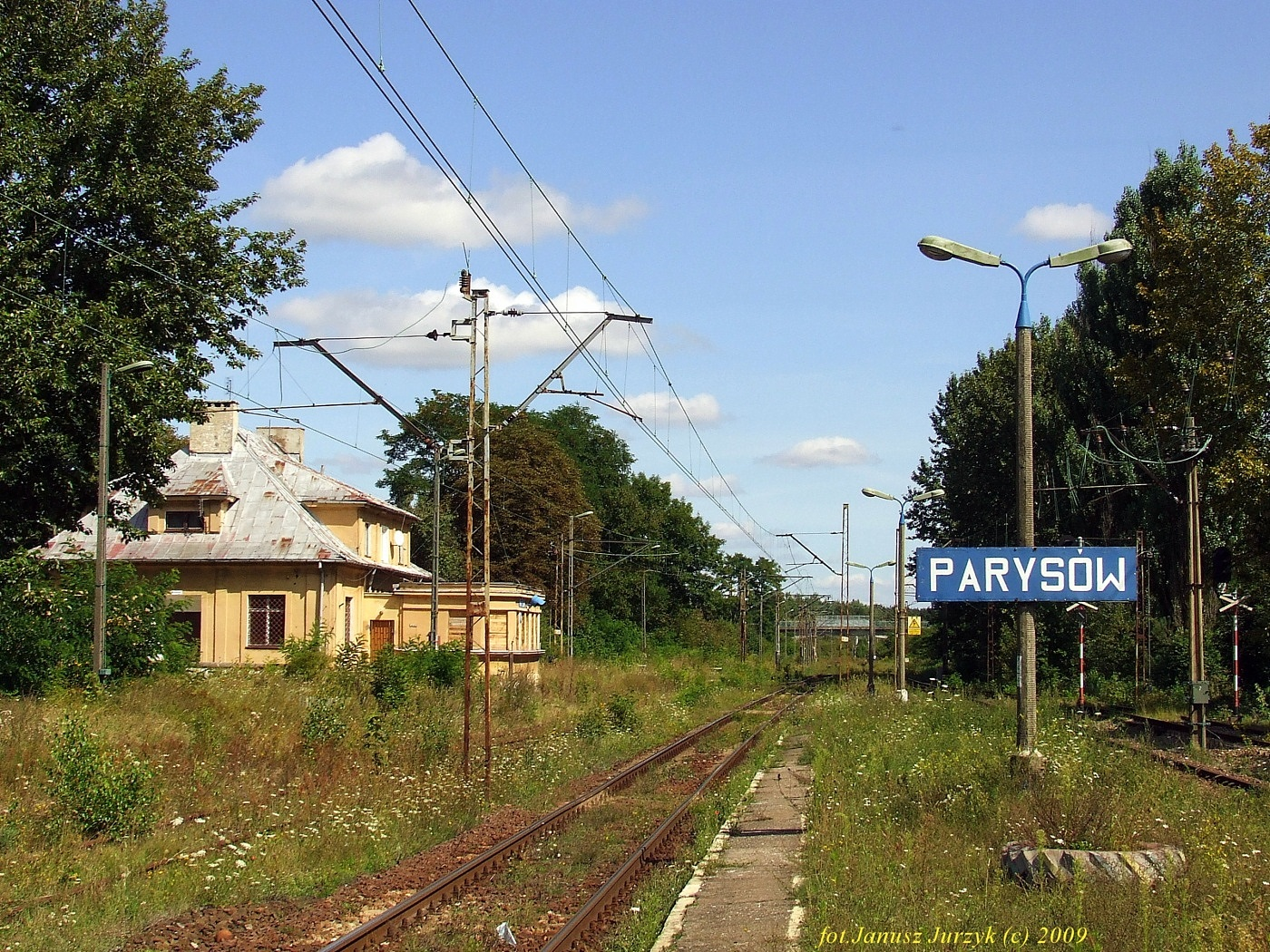 Train station Parysów.